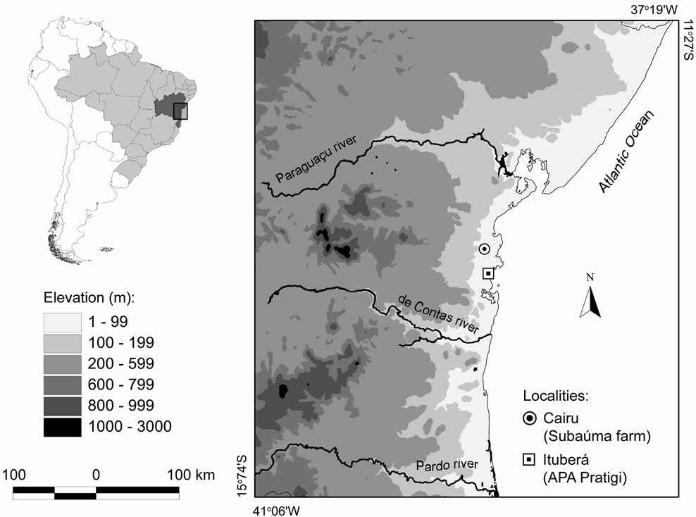 FIGURE 3 in A new species of casque-headed tree frog, genus Aparasphenodon Miranda-Ribeiro (Amphibia: Anura: Hylidae), from the Atlantic Rainforest of southern Bahia, Brazil. FIGURE 3. Geographic distribution of Aparasphenodon arapapa sp. nov. on topographic map featuring the coastline of the State of Bahia, Brazil.